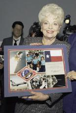 Texas Governor Ann Richards holds plaque of STS-40 Space Shuttle mission, while visiting NASA/JSC as Governor in 1992. Excerpt of NASA photo from " prepared by the National Aeronautics and Space Administration, 1992. The face in the background has been photo-blurred.